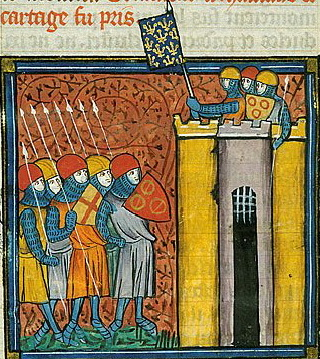 Eighth Crusade 1270: The capture of Carthage by the crusaders. (British Library, Royal 16 G VI f. 441)